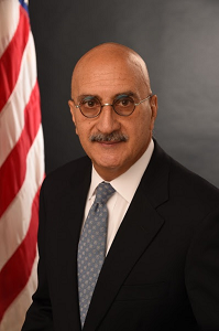 This is the official photo of Gopal Khanna, Director of the Agency for Healthcare Research and Quality.